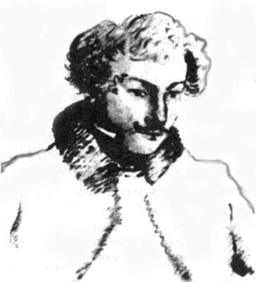 Pyotr Pavlovich Kaverin